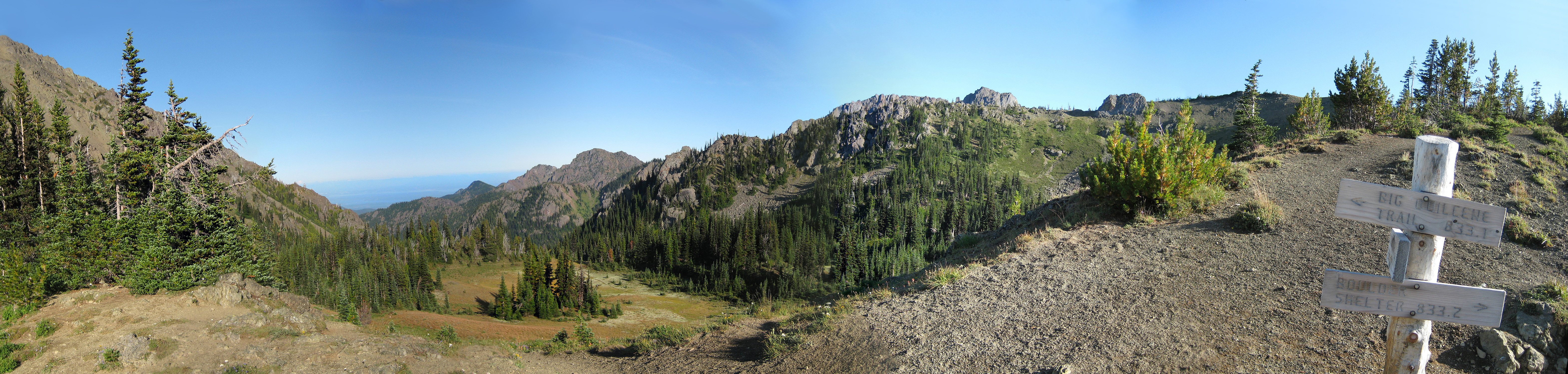 180° panorama at the crest of Marmot Pass in the Buckhorn Wilderness of the Olympic National Forrest in Washington State. Iron Mountain appears on the left-hand side with the Puget Sound and Hood Canal visible in the middle. Photographed in August 2007 the late afternoon by Gregg M. Erickson.